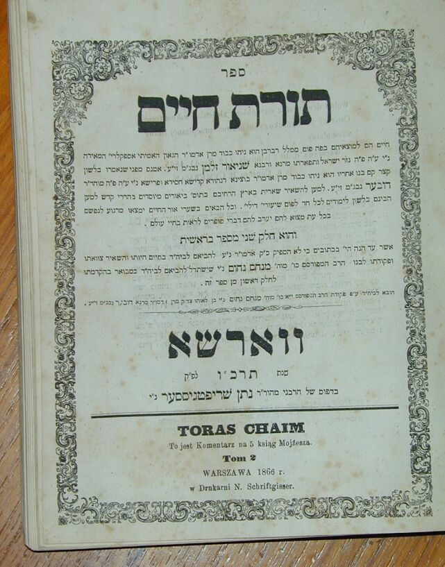 Title page of Toras Chaim, by Rabbi DovBer of Lubavitch ("the Mitteler Rebbe"), published by Nosson Shriftnisser Press, Warsaw, 1866